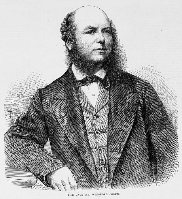 George Wingrove Cooke (1814 – 18 June 1865)